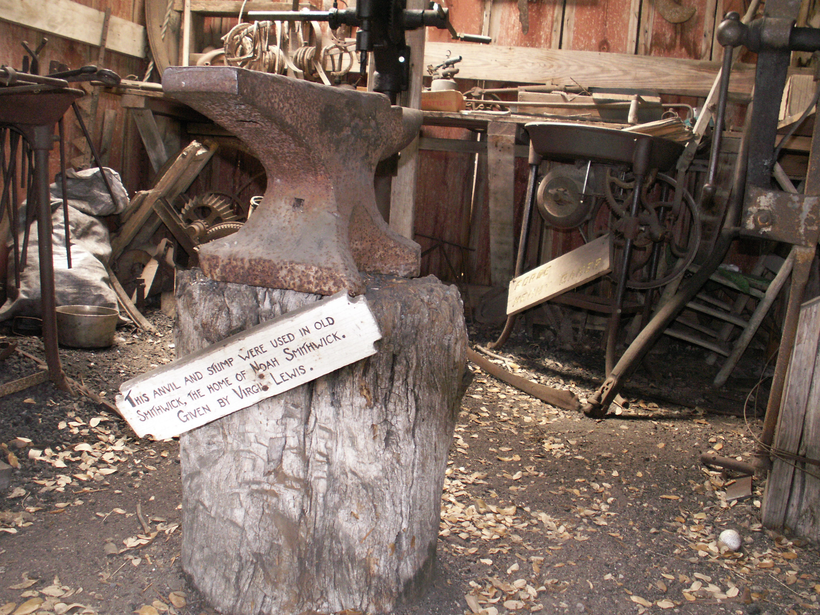 I own this image. I took the photo April 21, 2007 at Ft. Croghan. Emuchick Emuchick 14:56, 12 June 2007 (UTC)